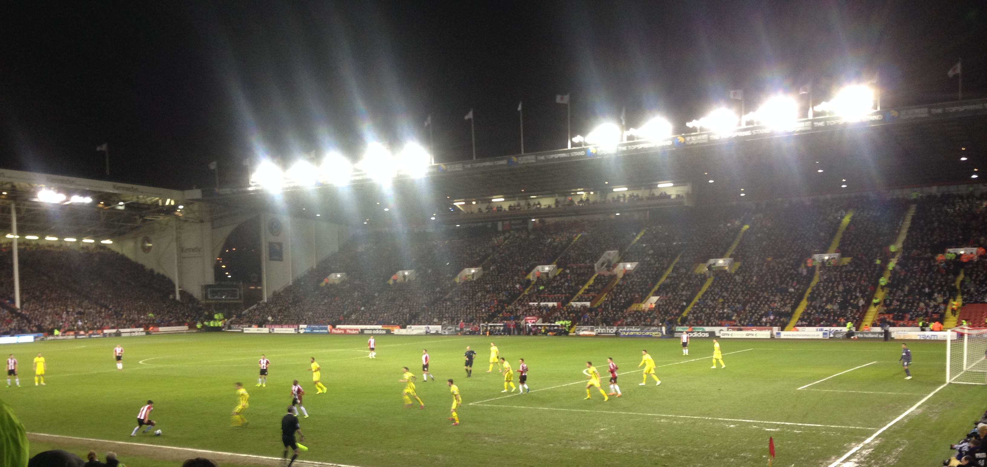 Sheffield United F.C. v Tottenham Hotspur F.C. on 28 January 2015 in the League Cup Semi-final second leg at Bramall Lane.